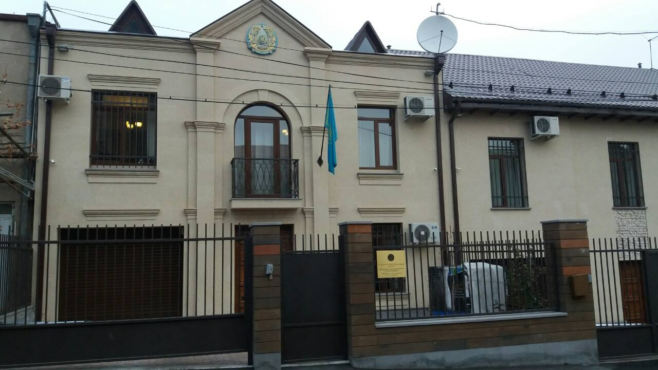 Embassy of Kazakhstan in Armenia